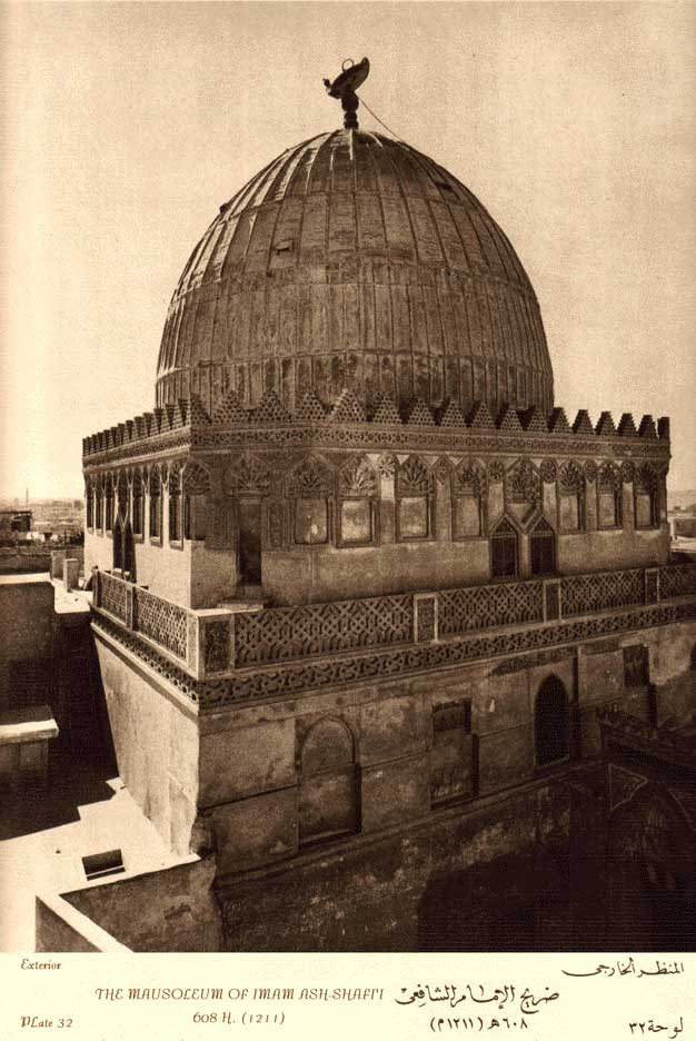 Imam al-Shaf'ai Qubba قبة الإمام الشافعي